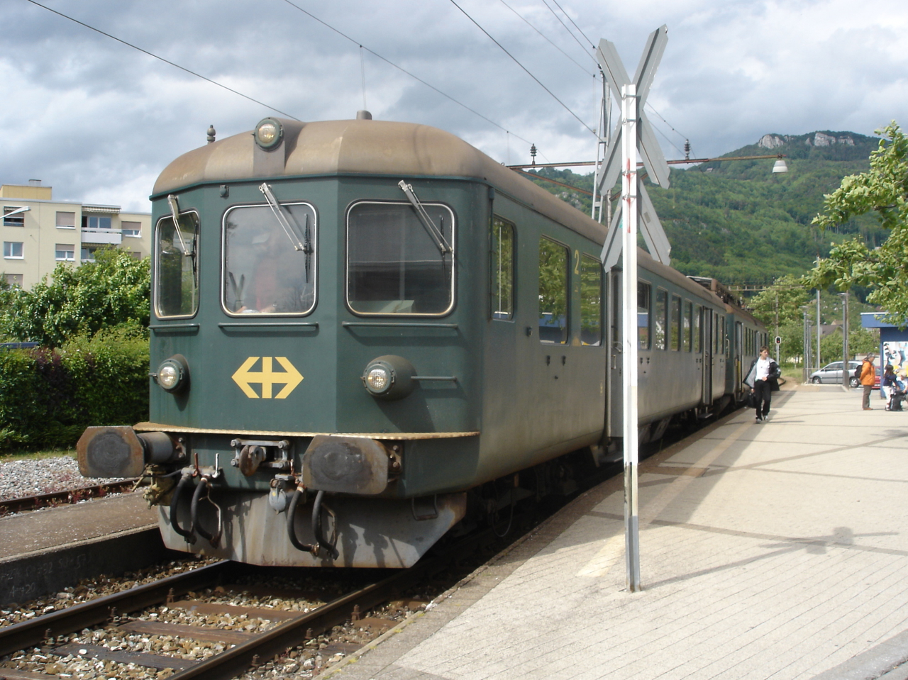 OeBB Bt 900 driving trailer at Oensingen station.